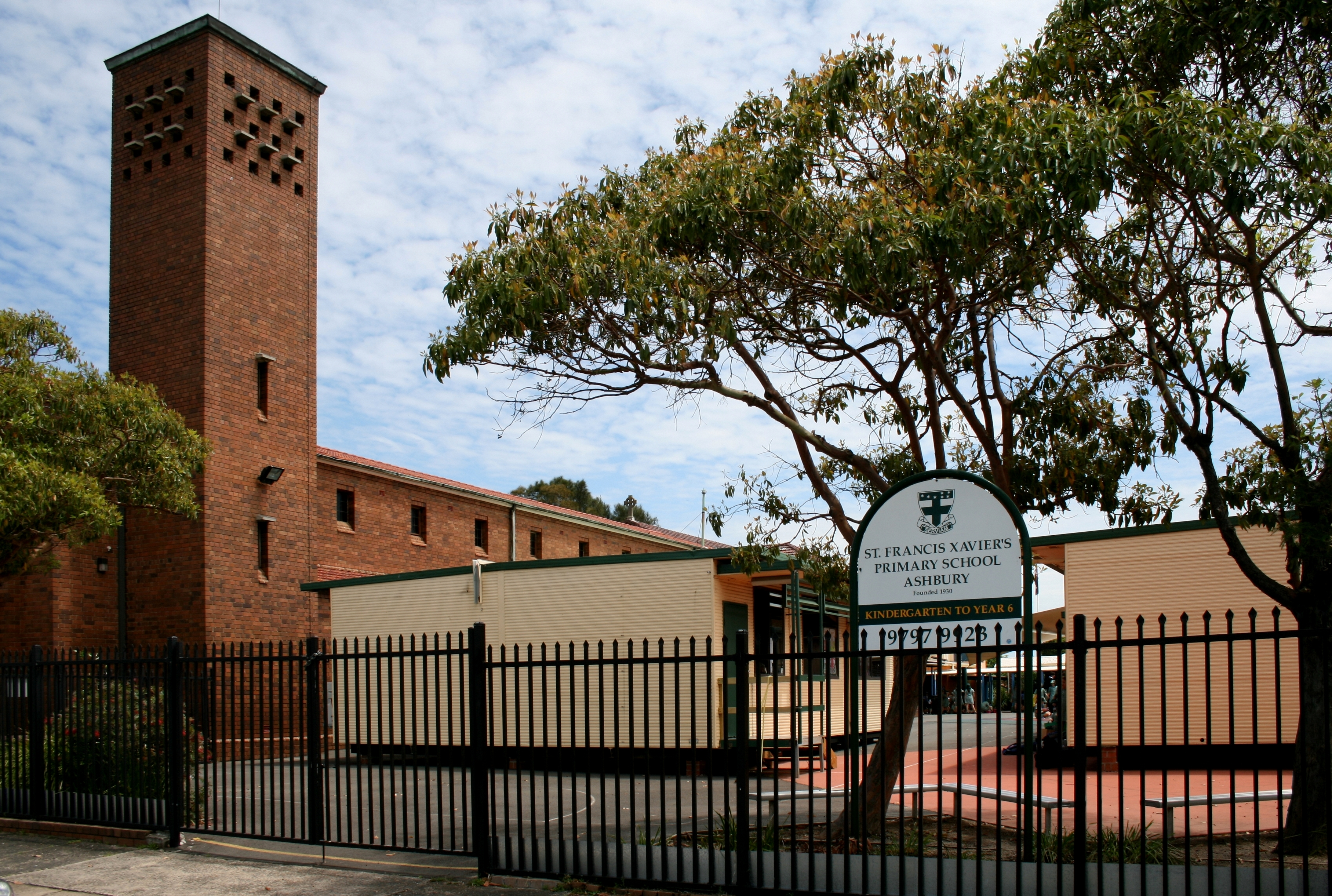 St. Francis Xavier's Primary School Ashbury/Croydon Park, New South Wales (NSW), Australia. The tower on the left is the church tower of the church that this school is affiliated with.